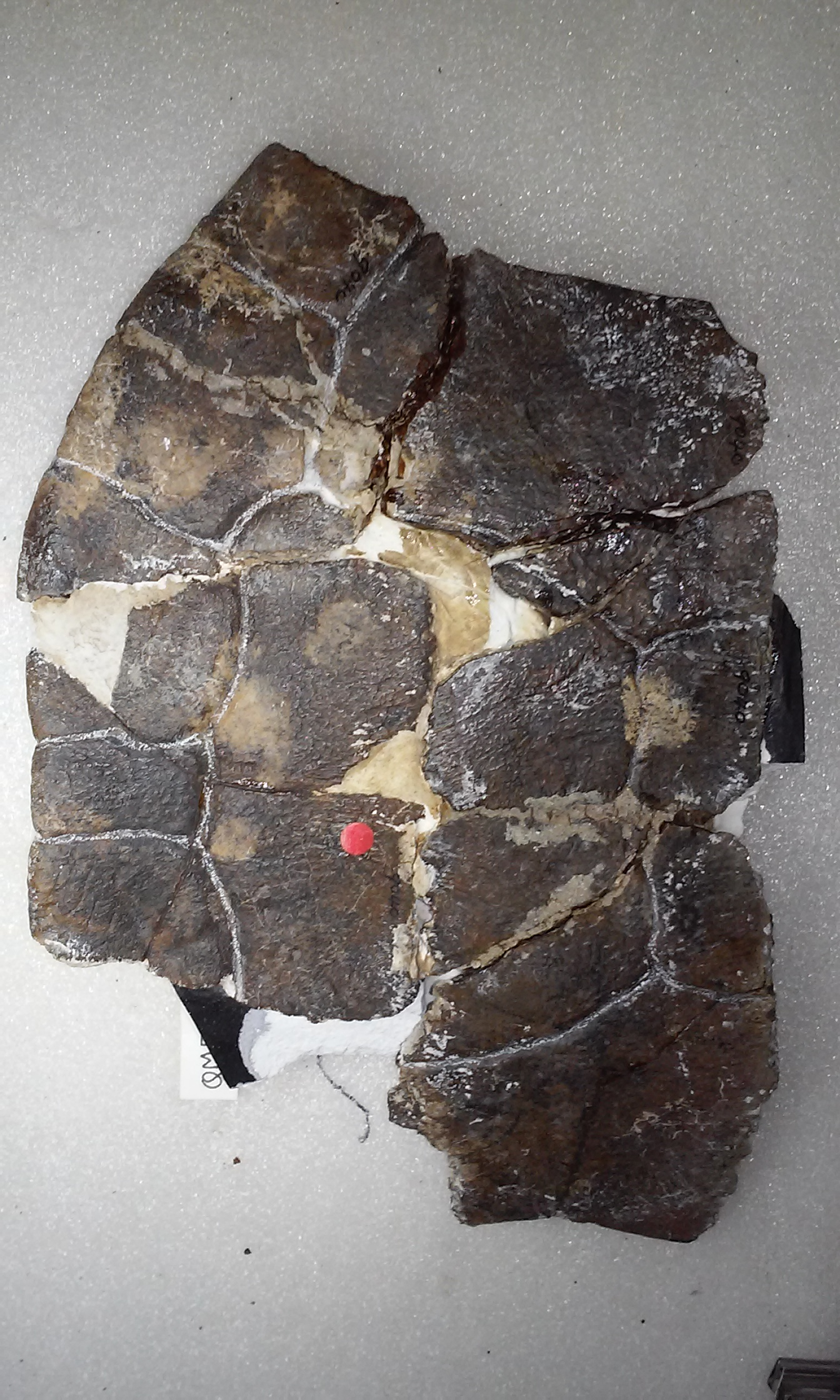 Lectotype of Elseya uberrima, Queensland Museum